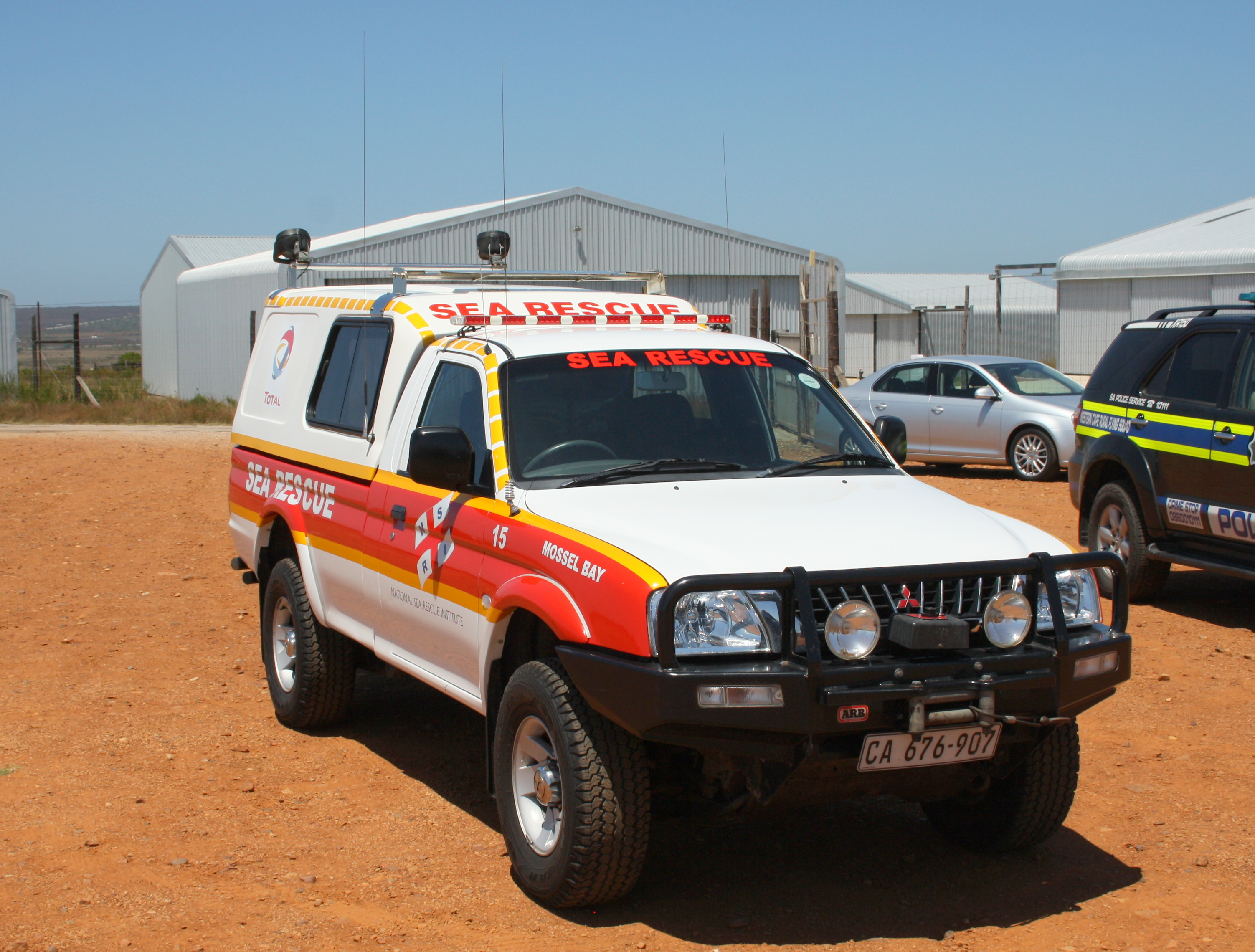 NSRI Sea Rescue Mitsubishi Colt